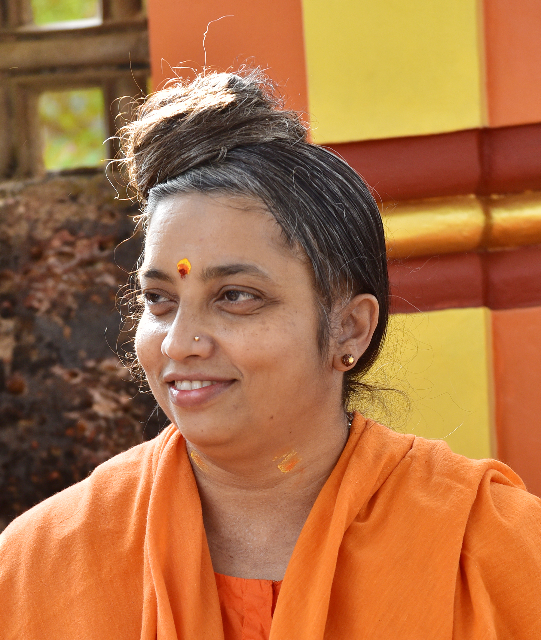 ಒಡಿಯೂರು